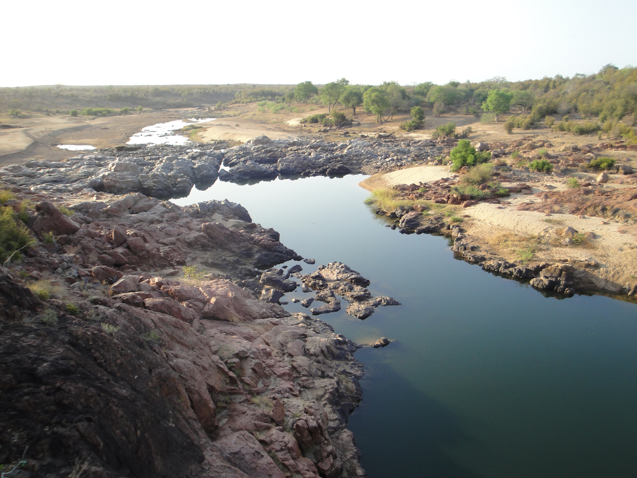 Makokwani Pools, Gonarezhou National Park